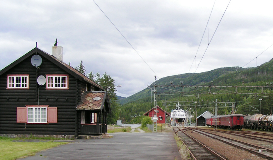 station of Tinnoset, Norway, Rjukanbanen